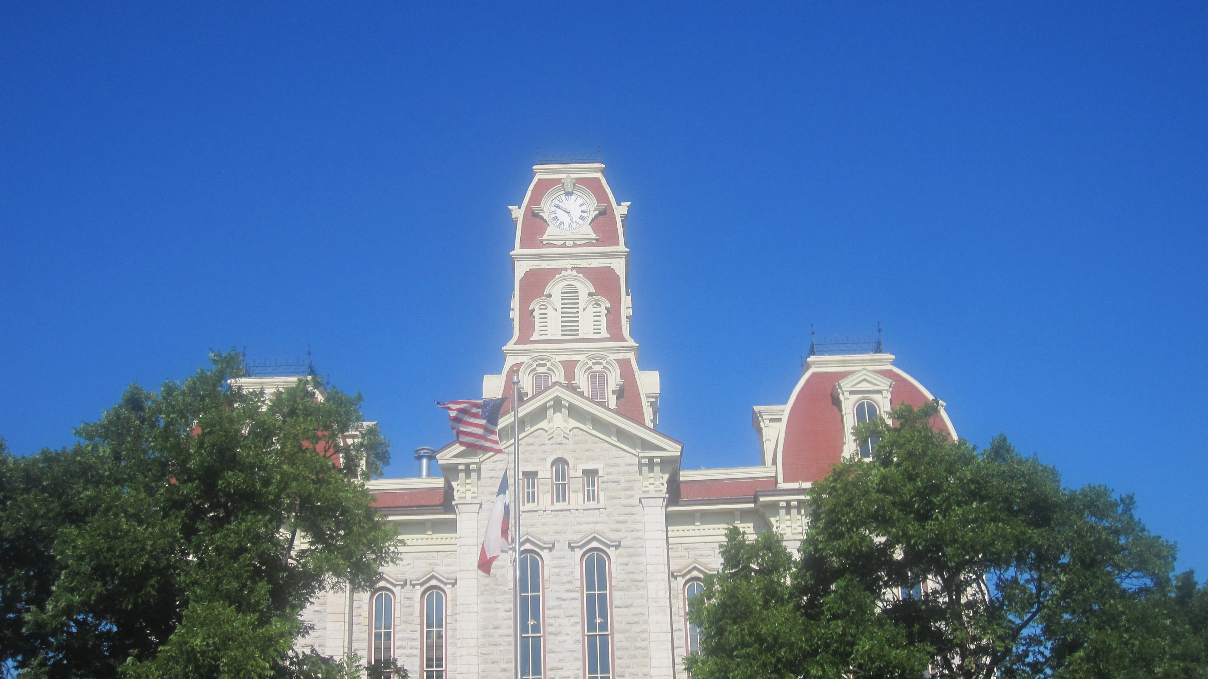 I took photo in Weatherford, TX, with Canon camera.